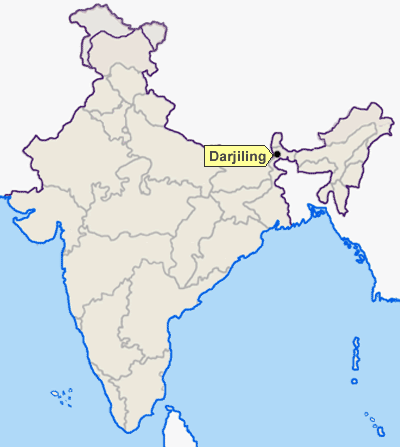 Map of India with location of Darjiling highlighted.